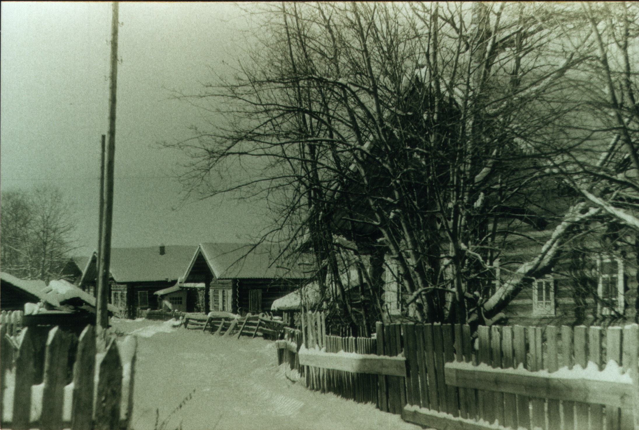 Rural street in Logduz, Vologda Oblast, Russia.